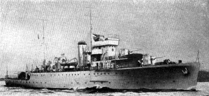 The Portugese sloop NRP Gonçalo Velho in the 1940s.